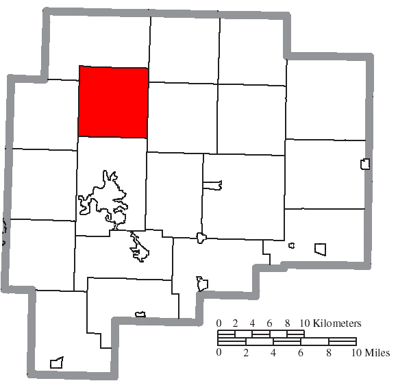 Map of the municipal and township boundaries of Guernsey County, Ohio, United States, as of the 2000 census, with the location of Liberty Township highlighted. Township borders are shown only in unincorporated areas in order to differentiate incorporated and unincorporated areas more clearly.